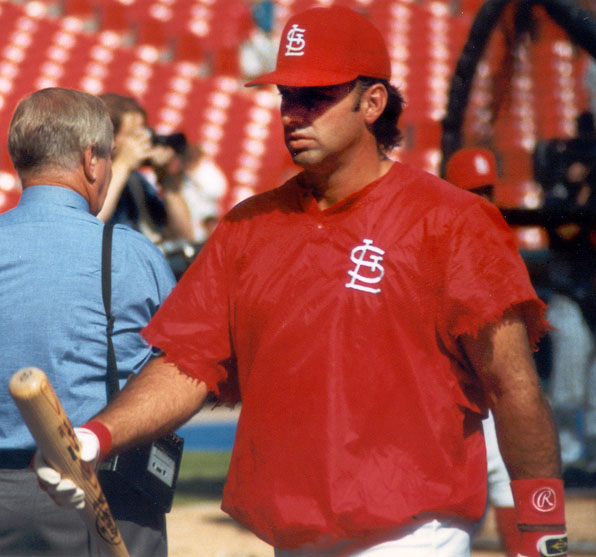 Gary Gaetti with the Cardinals.